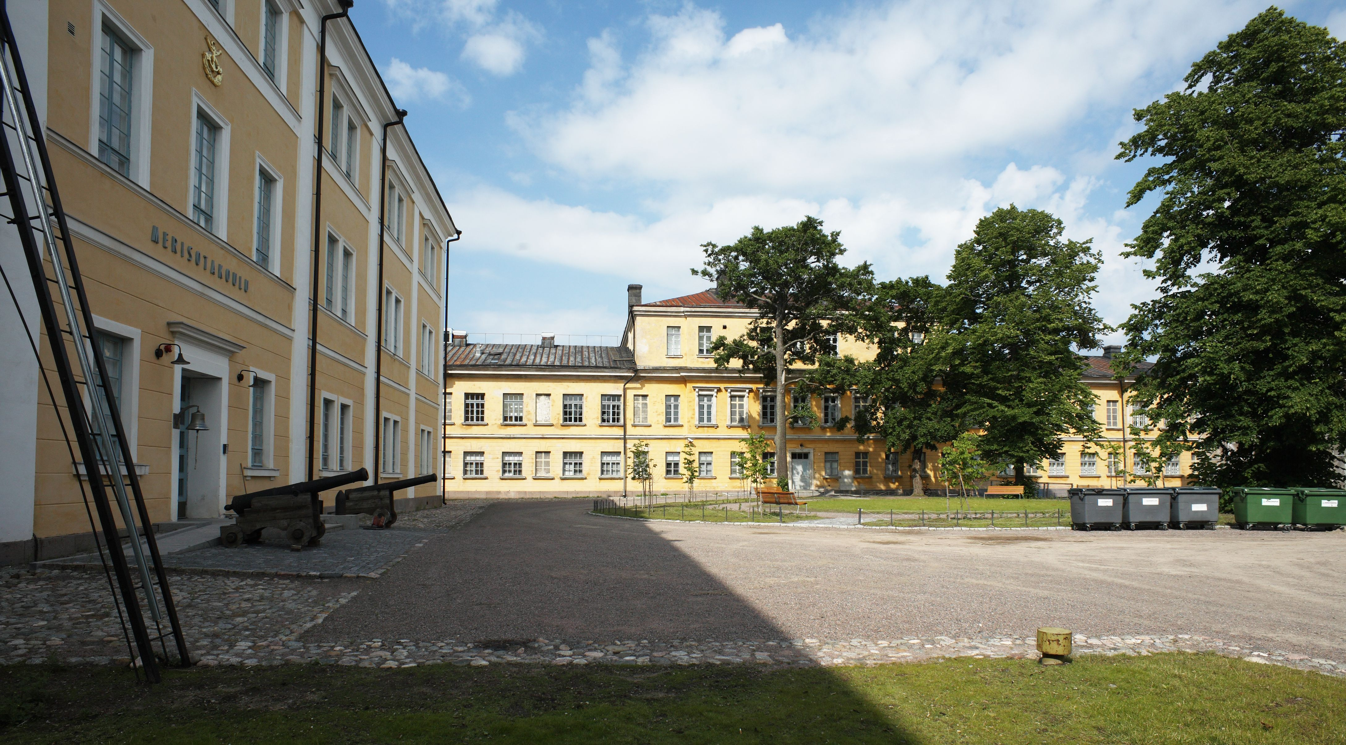 The School of Naval Warfare (on the left). Sveaborg, Suomenlinna, Helsinki